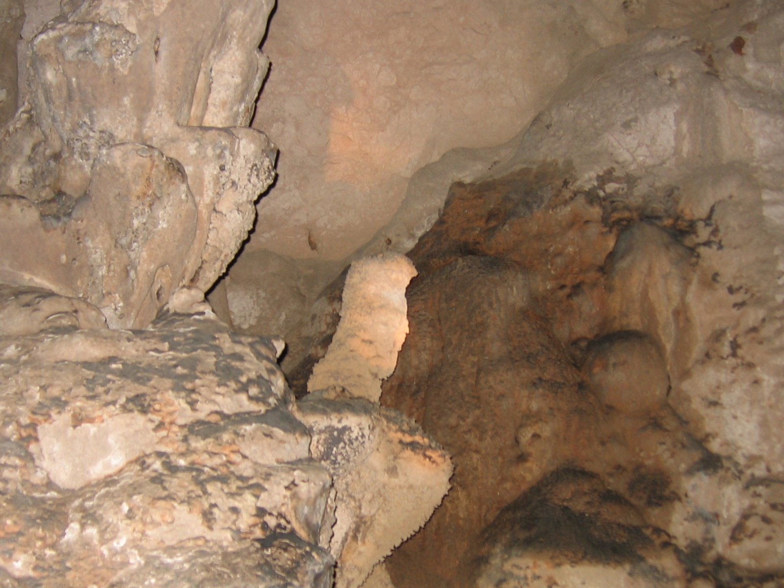 A parrot-shaped speleothem inside Ta Ko Bi Cave (Thai: ตะโคะบิ๊) in Amphoe Umphang, Tak, Thailand.